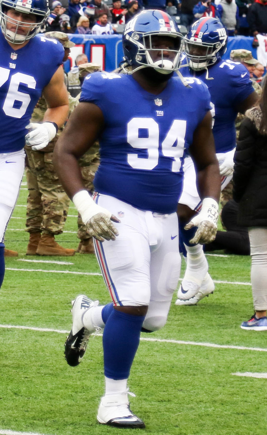 Lt. Gen. Darryl A. Williams, 60th superintendent of the U.S. Military Academy, cadet leadership, members of the cadet glee club and the Benny Havens Band took part in the Salute to Soldier events during the New York Giant's game against the Tampa Bay Buccaneers Sunday, Nov. 18, 2018 at Metlife Stadium. (U.S. Army Photos by Brandon O'Connor)